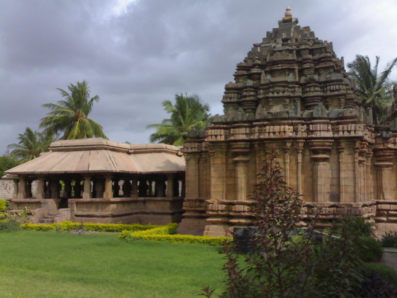 Hooli Panchalingeshwara temple Source and Author : Manjunath Doddamani, Gajendragad / Hubli, Karnataka(North), India